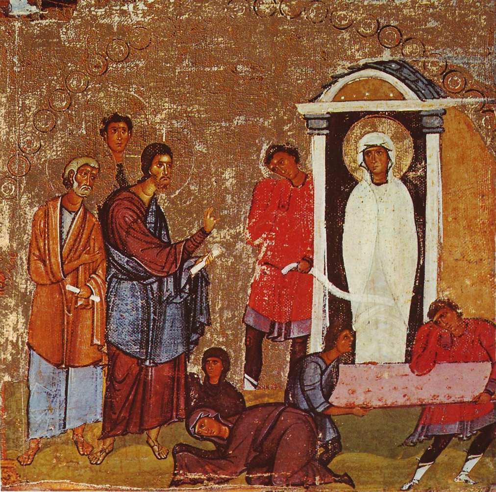 Lazarus' resurrection: scene from an iconostasis. Cypriotic style, first half of the 12th century. 44.8 x 114.2 cm